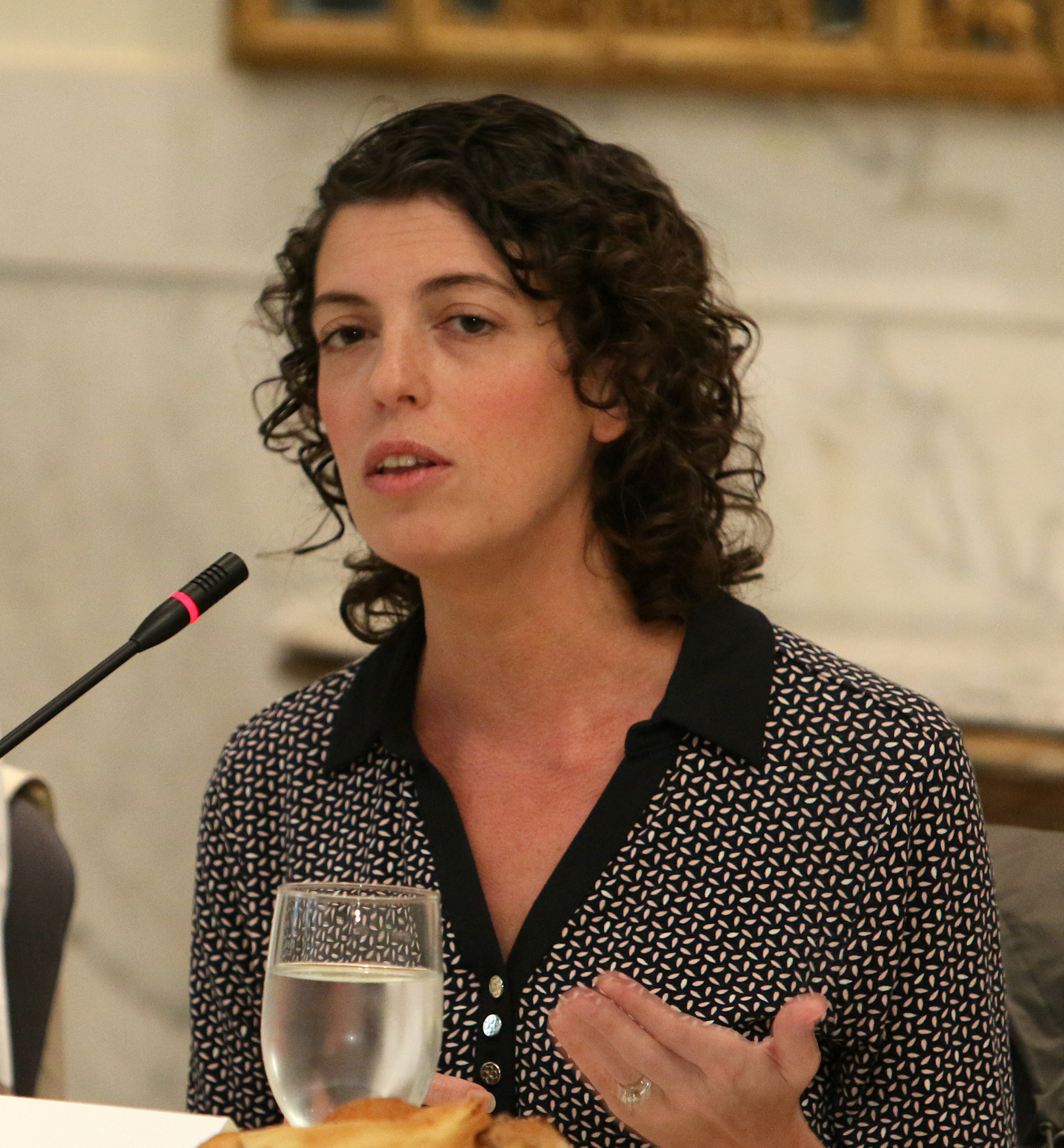 Molly Ball, staff writer, The Atlantic